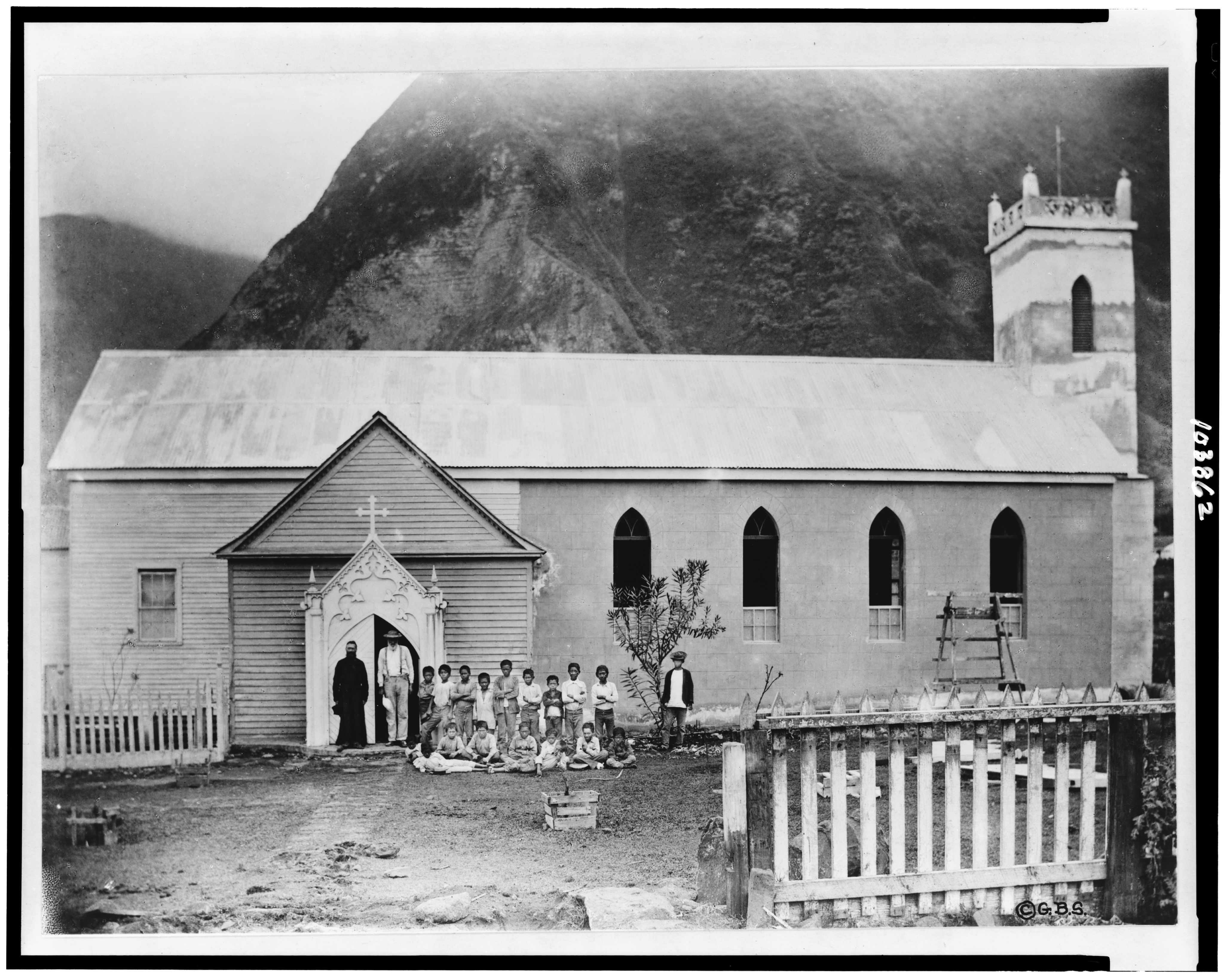 Title: [Two men and nineteen boys in front of church] Date Created/Published: [image taken between ca.1870 and 1889, printed ca.1939], c1939. Medium: 1 photographic print. Reproduction Number': LC-USZ62-103862 (b&w film copy neg.) Call Number: BIOG FILE - Damien, Father, 1840-1889 [P&P] [P&P]